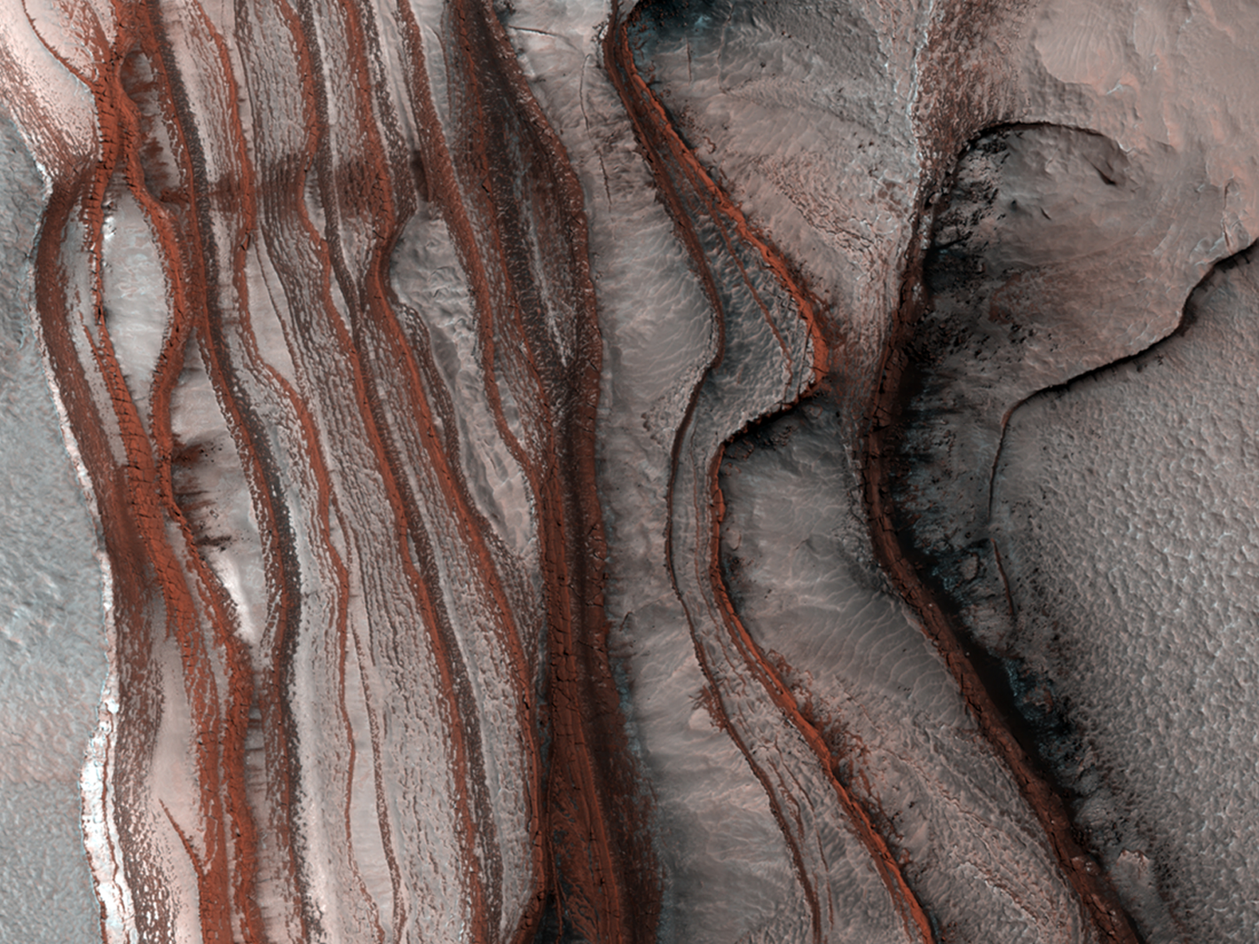 How did these layers of red cliffs form on Mars? No one is sure. The northern ice cap on Mars is nearly divided into two by a huge division named Chasma Boreale. No similar formation occurs on Earth. Pictured above, several dusty layers leading into this deep chasm are visible. Cliff faces, mostly facing left but still partly visible from above, appear dramatically red. The light areas are likely water ice. The above image spans about one kilometer near the north of Mars, and the elevation drop from right to left is over a kilometer. One hypothesis relates the formation of Chasma Boreale to underlying volcanic activity.